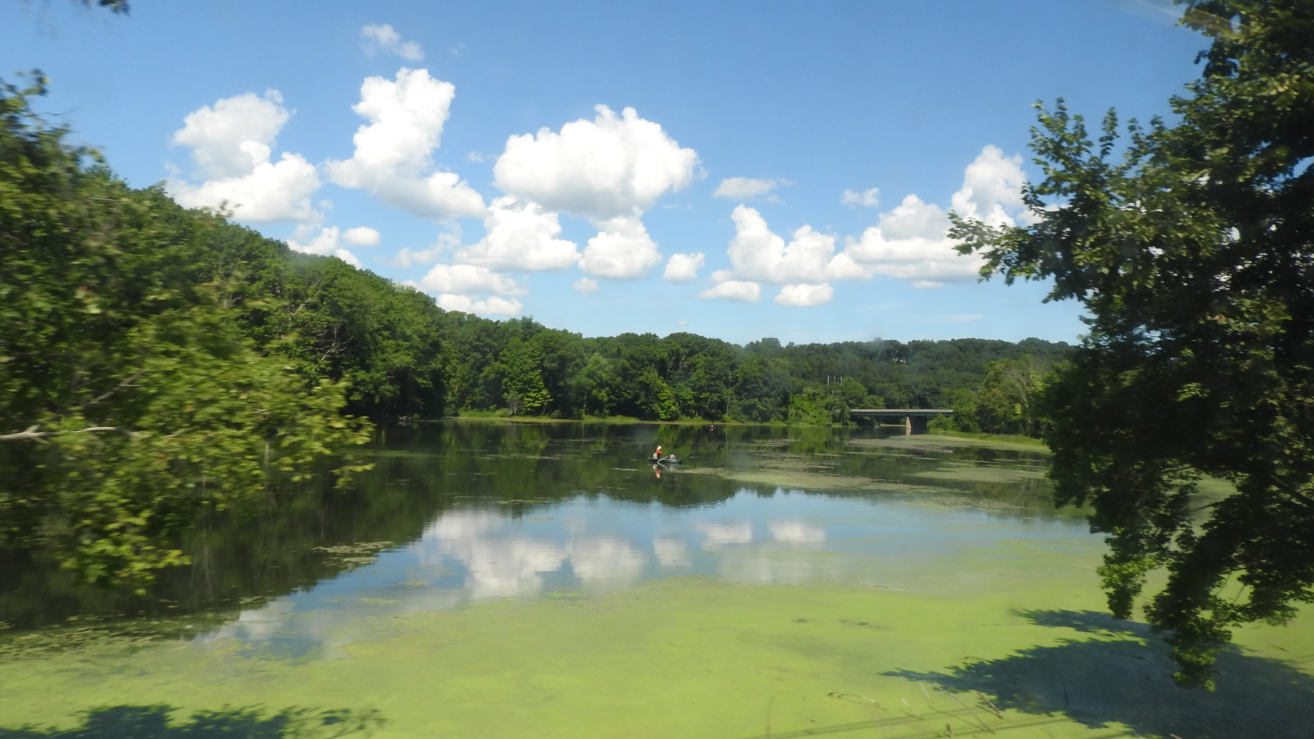 Looking northwest from a train on a sunny morning